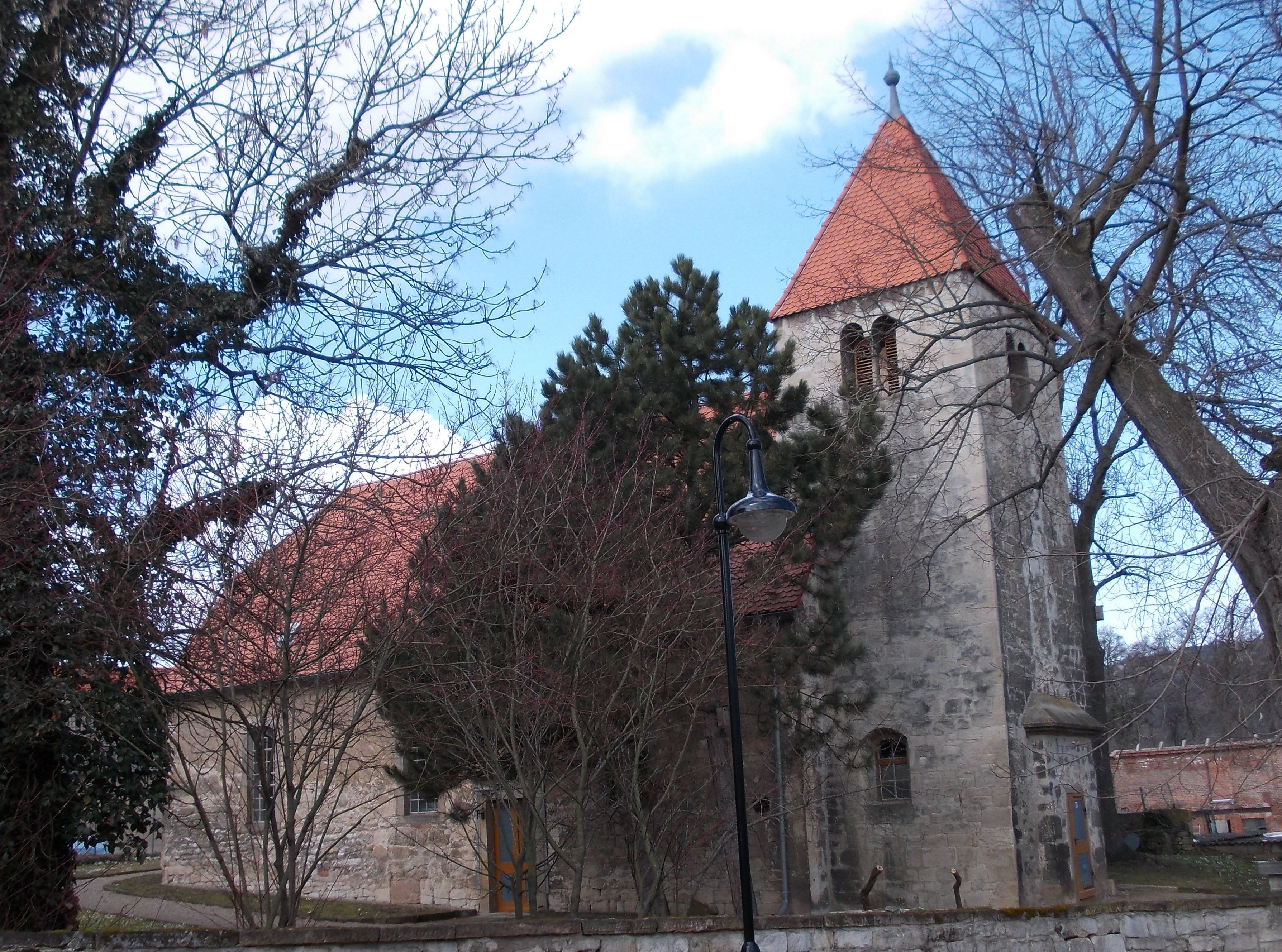 Balgstädt church (district of Burgenlandkreis, Saxony-Anhalt)